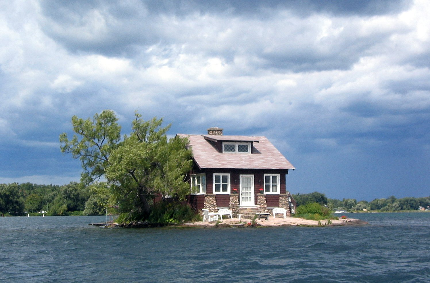 This island, called "Just Room Enough", is the closest island to the famous Boldt Castle. One of the Thousand Islands, with only enough room for a single house.